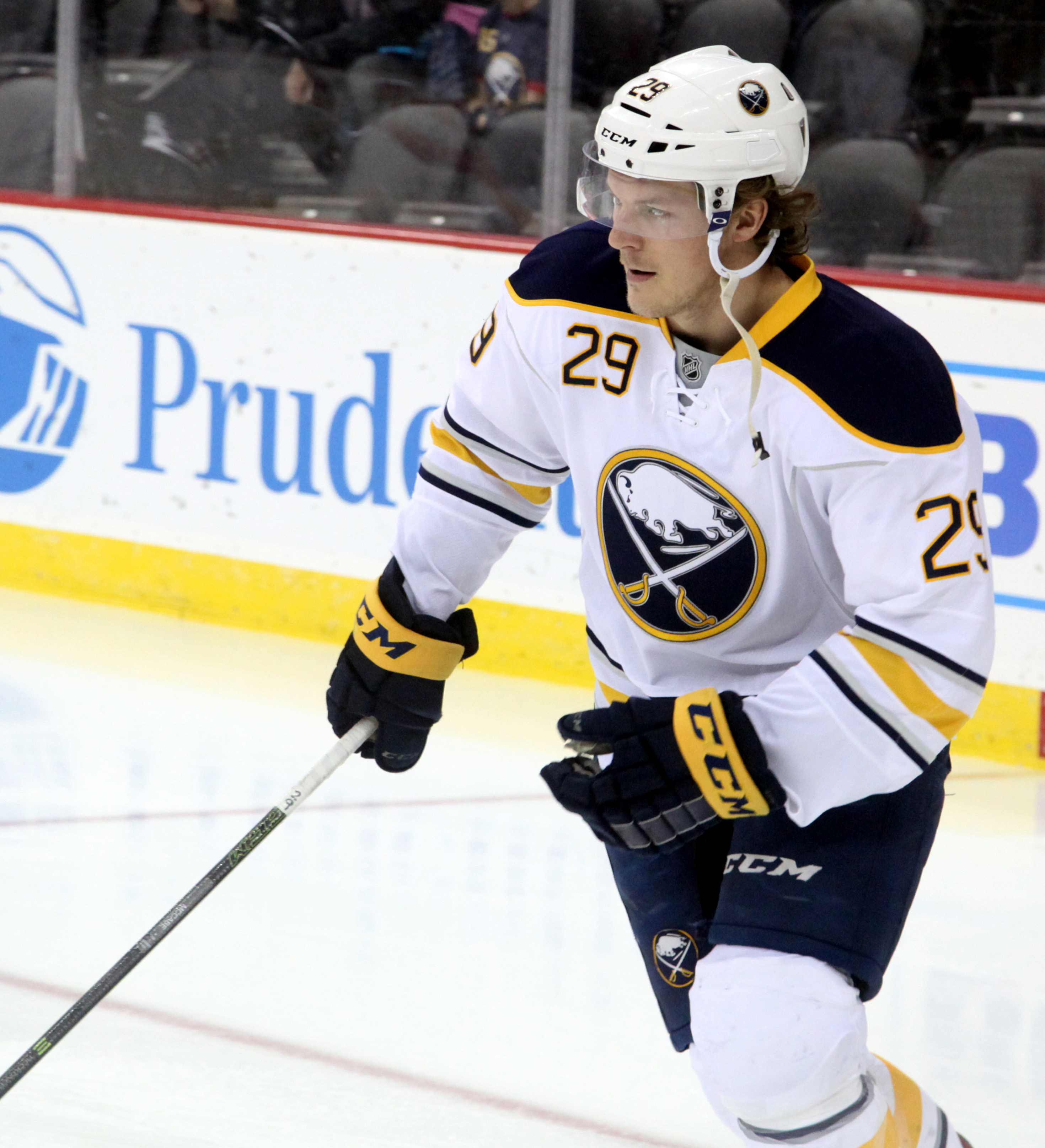 Jake McCabe in April 2016.